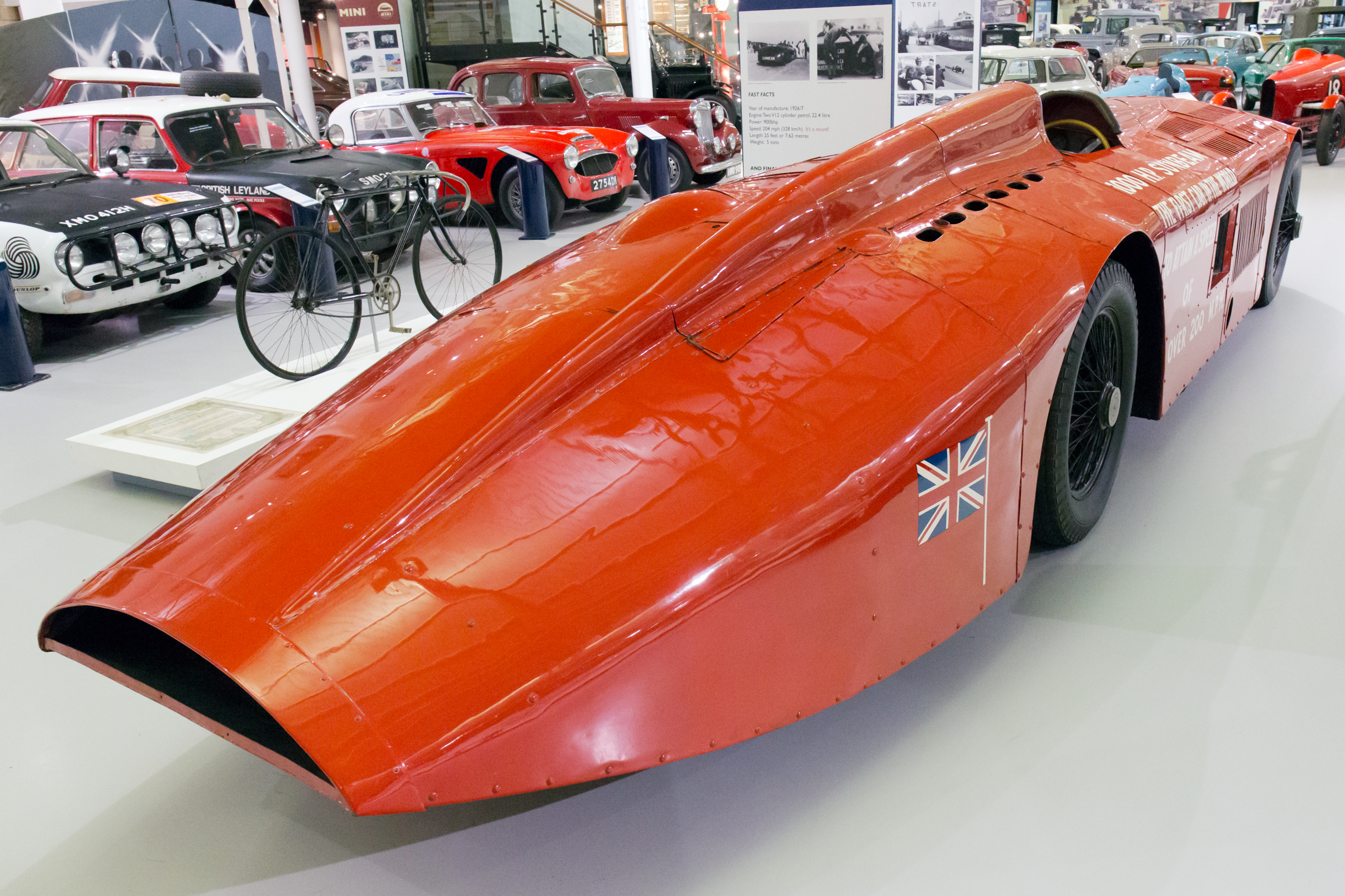 1927 Sunbeam 1000hp